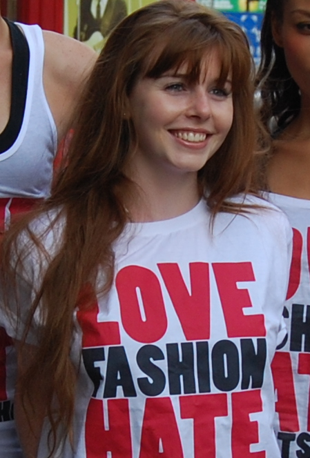 Stacey Dooley campaigning with the organisation War on Want.